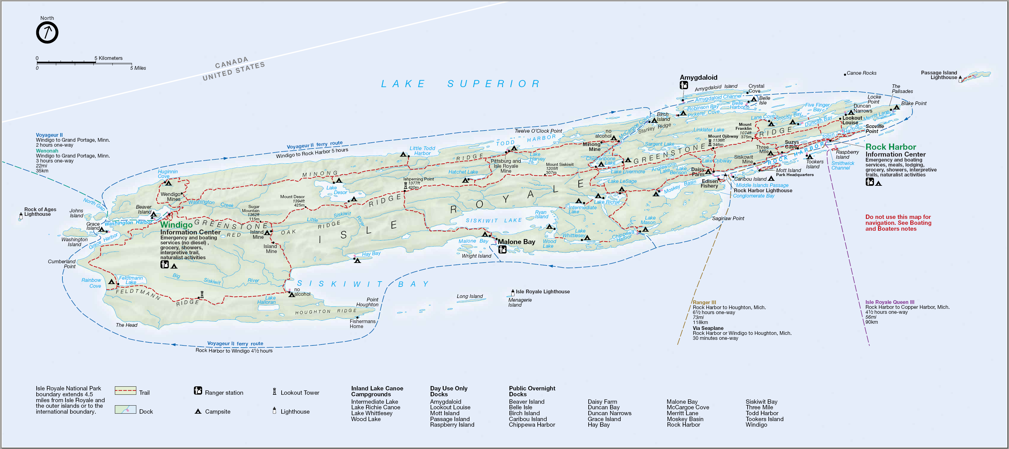 Map ofIsle Royale National Park